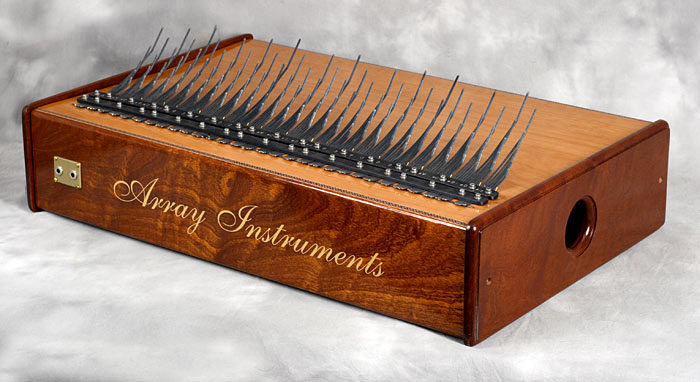 A five-octave Array mbira made of sapele wood. Photo taken in San Diego.